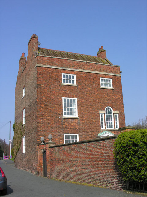 Snuff Mill House, Cottingham, East Riding of Yorkshire, England.See description with main photo.